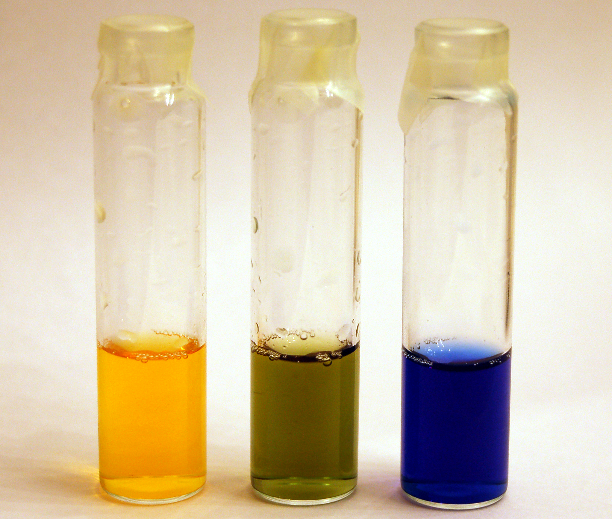 Bromothymol Blue pH indicator dye in an acidic, neutral, and alkaline solution (left to right).